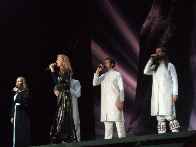 Madonna concert in Barcelona